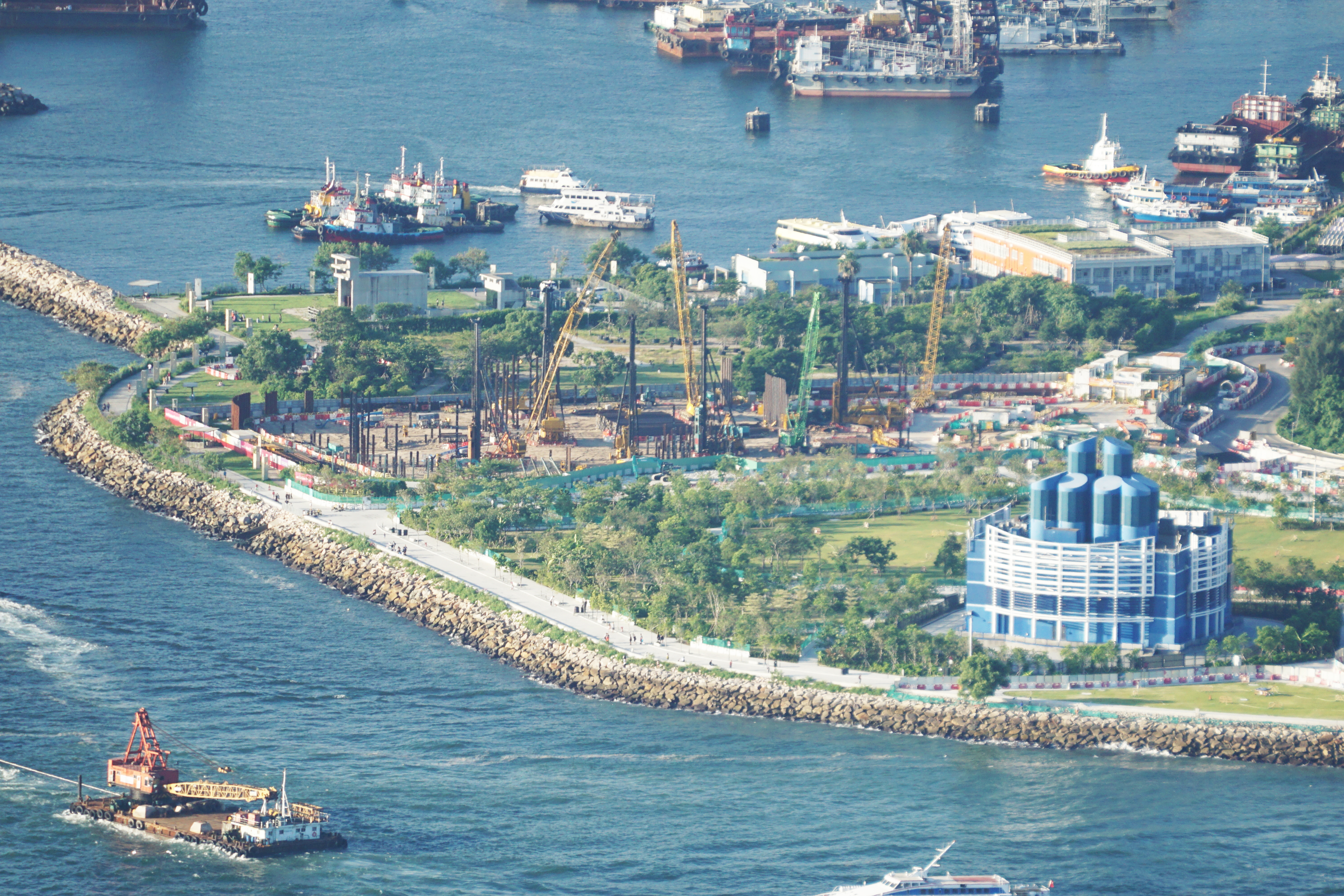 Hong Kong Palace Museum in West Kowloon, Hong Kong.